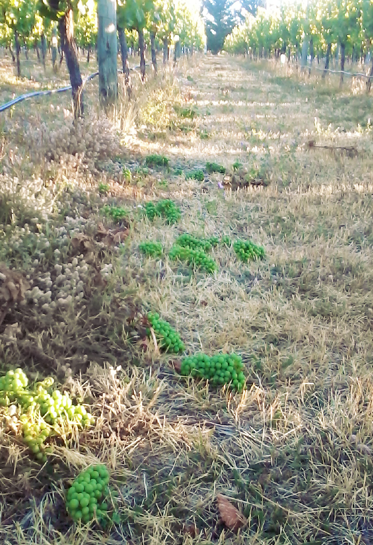 Green harvest / Bunch thinning